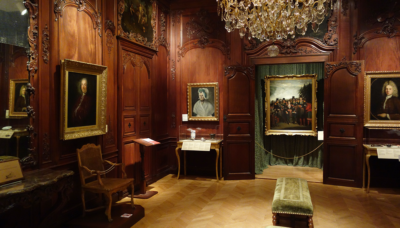 Grand salon at Governor Ramezay House, Montreal, Quebec, Canada